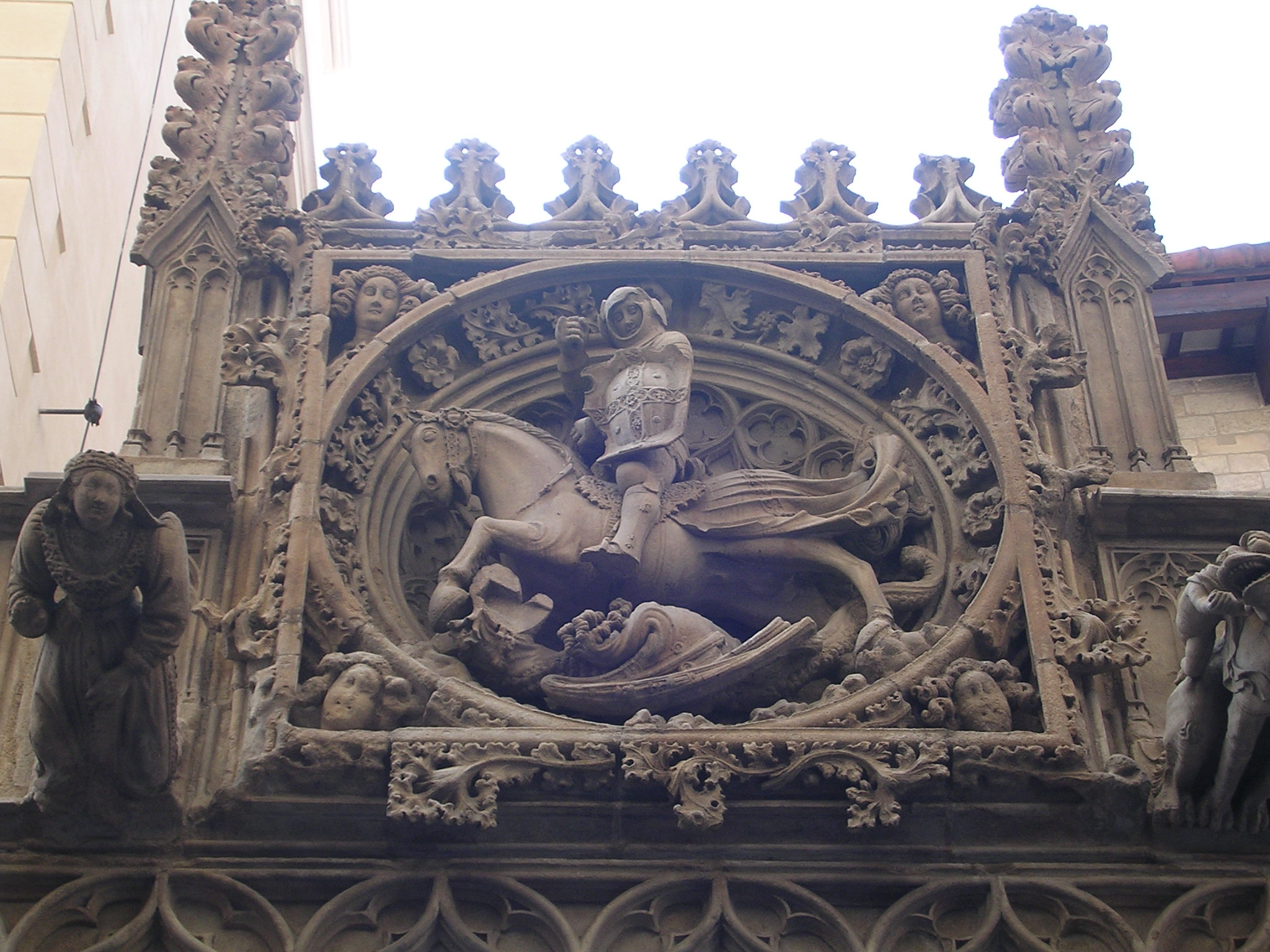 Sculpture of St. George presiding the old gothic façade of the Palau de la Generalitat (Catalan Government seat) in Barcelona, by Pere Joan (ca. 1420).